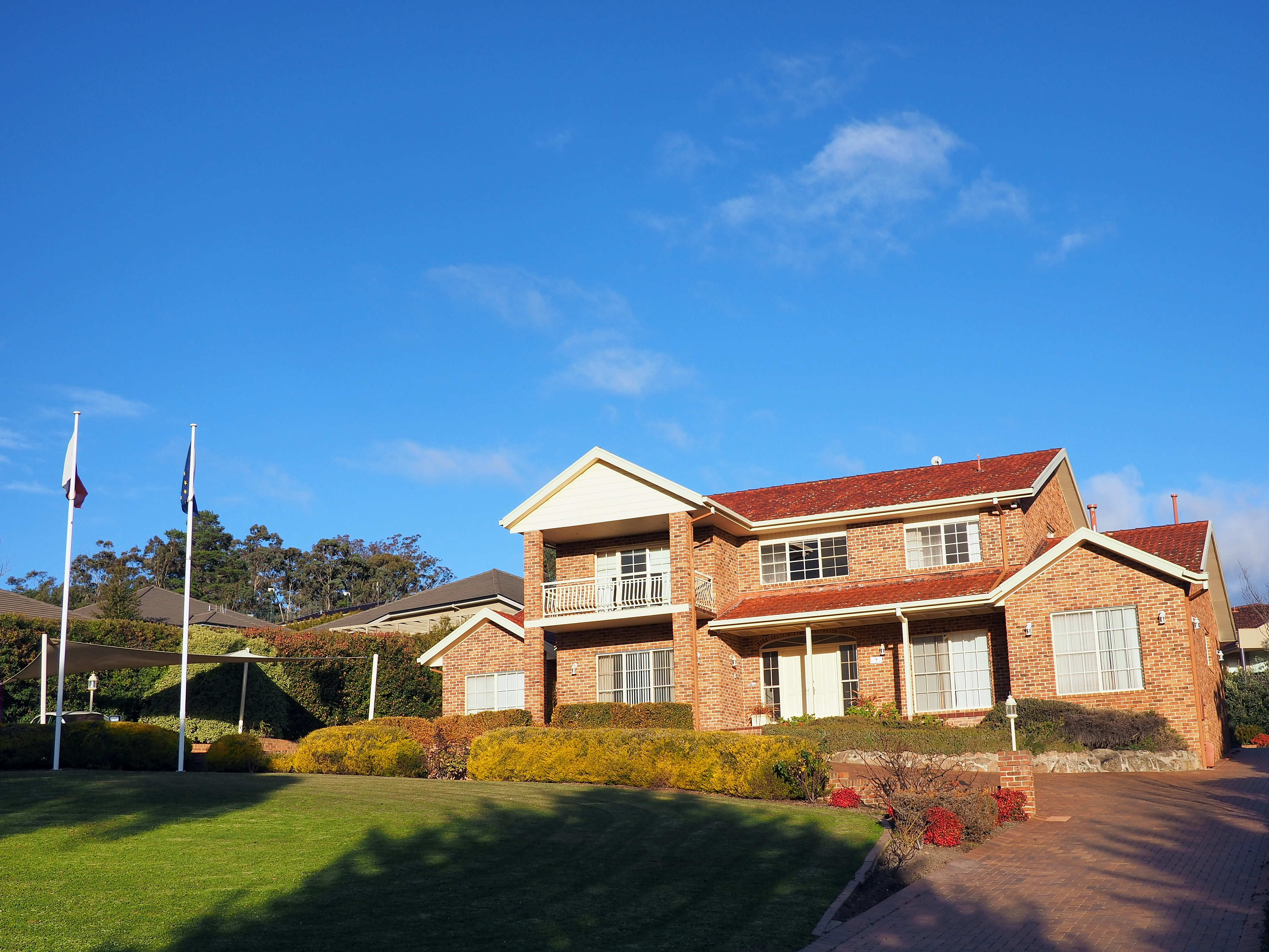 The Maltese High Commission in Canberra